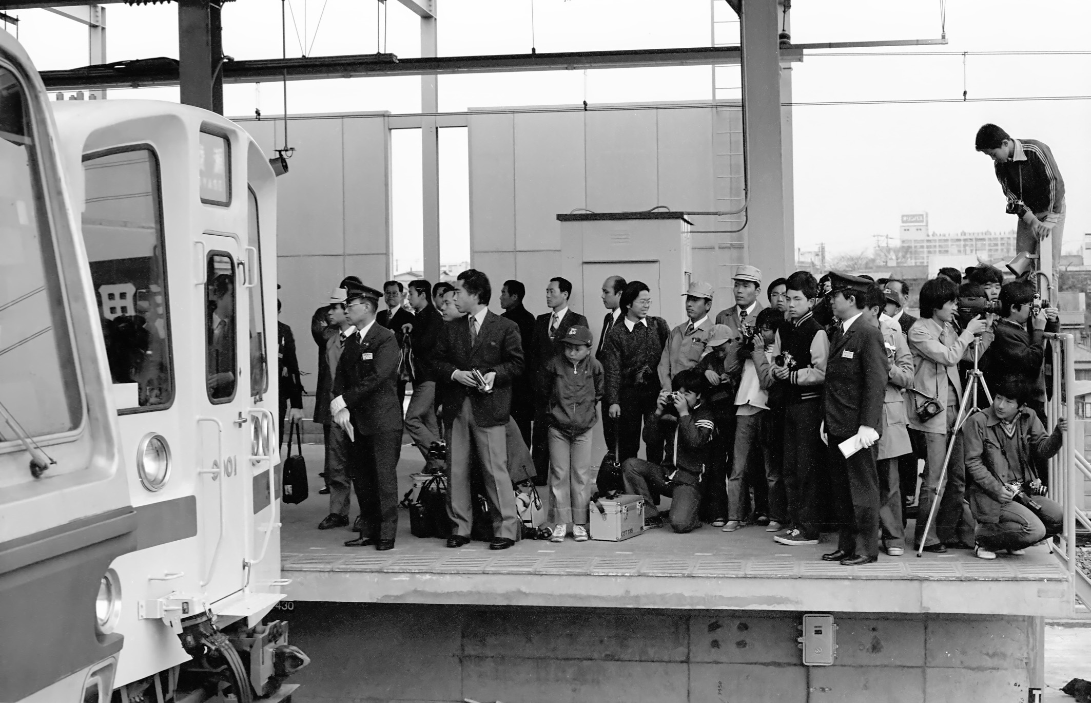 An Odakyu Electric railway 9000 series EMU (right) and a Teito Rapid Transit Authority 6000 series EMU at Yoyogi-Uehara Station on the first inter-running services between Odakyu and the TRTA Chiyoda Line